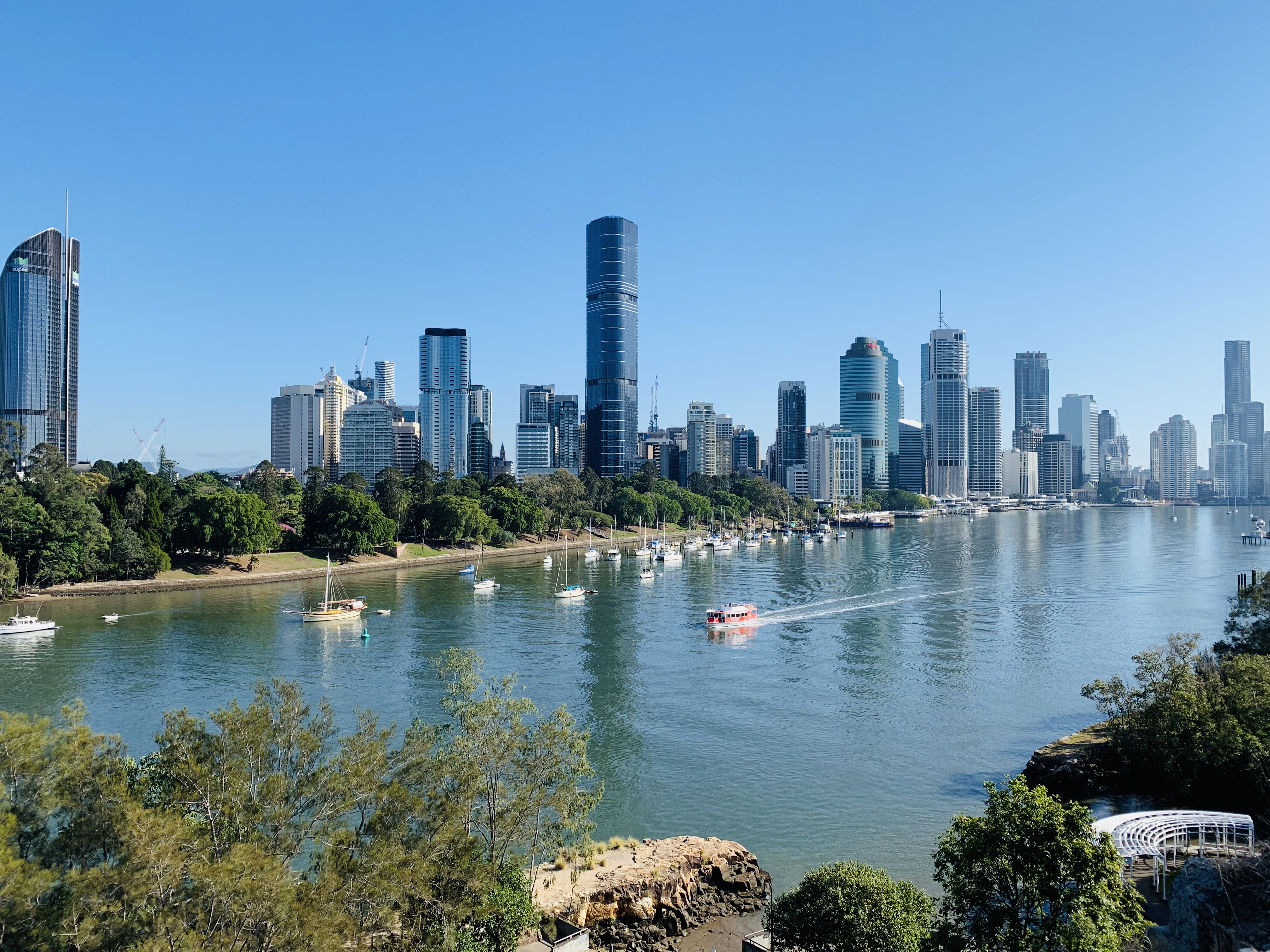 Skylines of Brisbane in winter misty morning seen from Kangaroo Point, Queensland